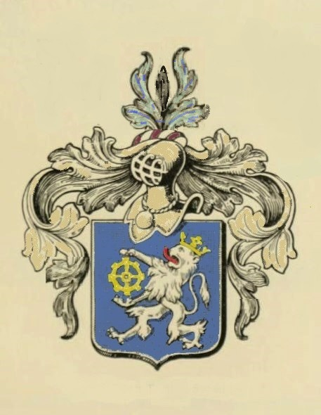 Heraldic shield of the Schickler family